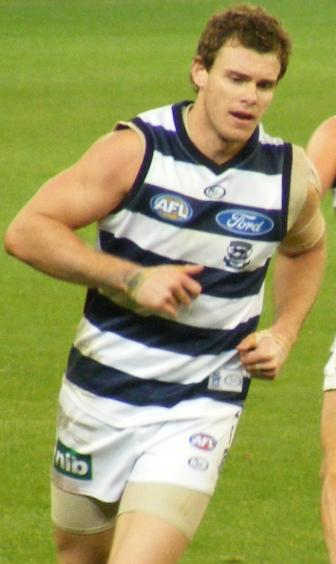 Cameron Mooney (born 26 September 1979) was an Australian rules footballer who played with Geelong Football Club